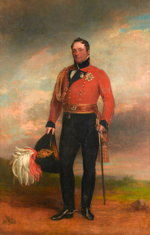 Lieutenant-General Rowland Lord Hill, 1819. Canvas by George Dawe